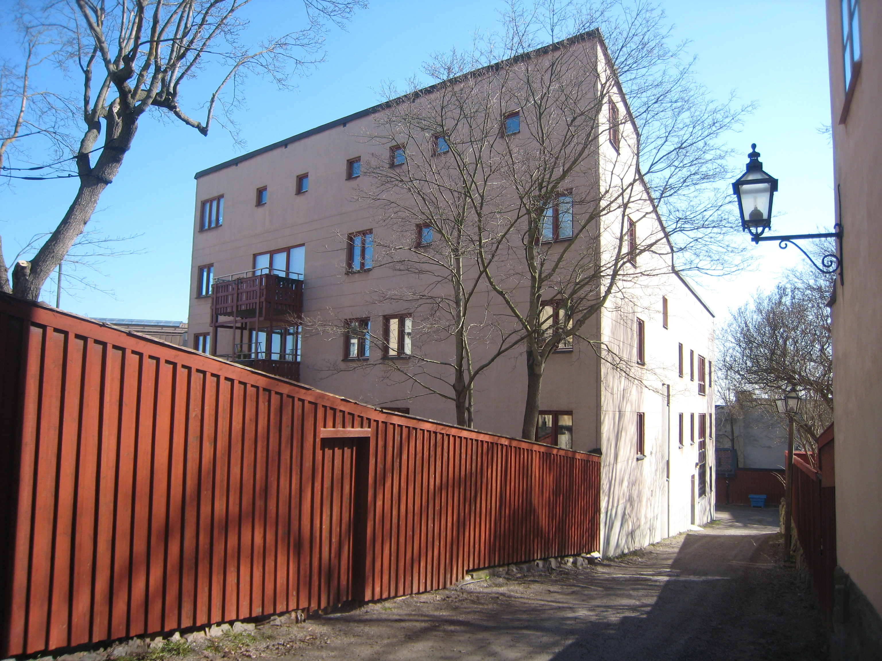 Kvarteret Drottningen, arkitekt Bengt Lindroos.